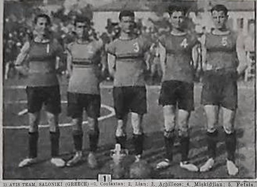 Basketball team of Aris Salonica in 1927